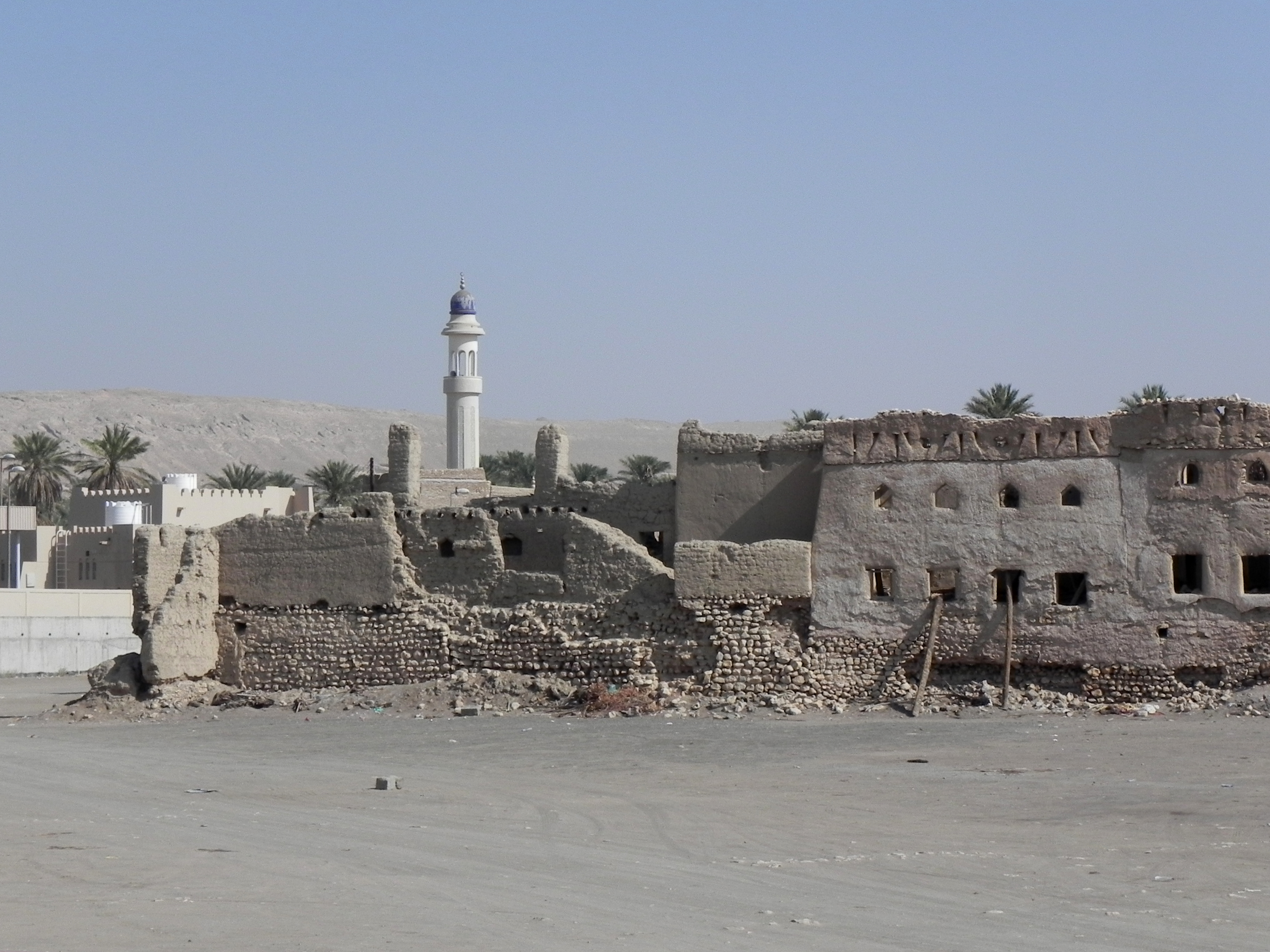 We came across this group of crumbling mud buildings while following the GPS directions through back streets of Ibri. An Omani we spoke to says that very few people live in such buildings any more because the maintenance is extremely high, they're small by modern standards, and the mud construction means that they are always dusty inside.